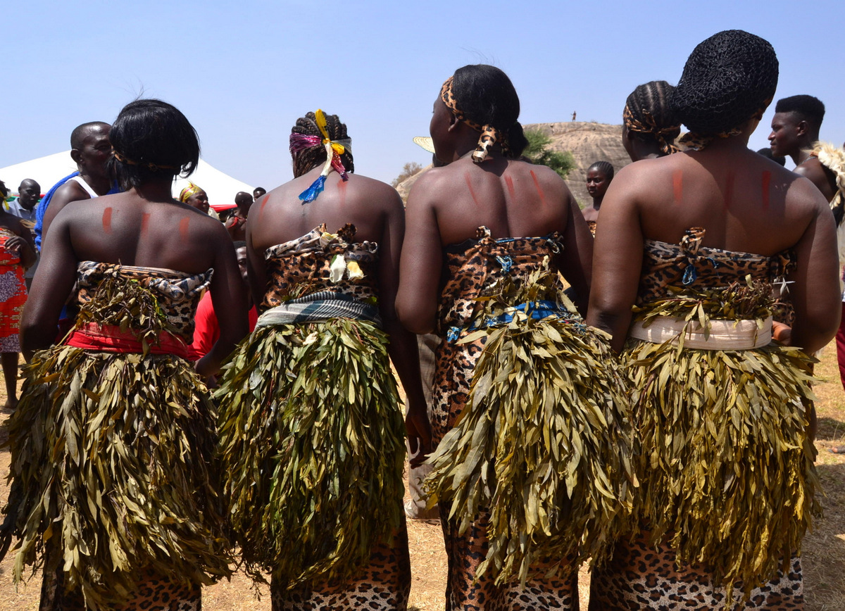 Women in props dance Nawhai Festival in Bokkos LGA, of Plateau State This is an image with the theme "Play" from: Nigeria